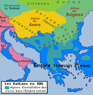 Historic map of Balkan peninsula, year 680